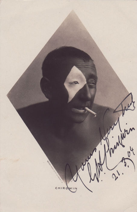 Photograph of music hall performer George H. Chirgwin in blackface